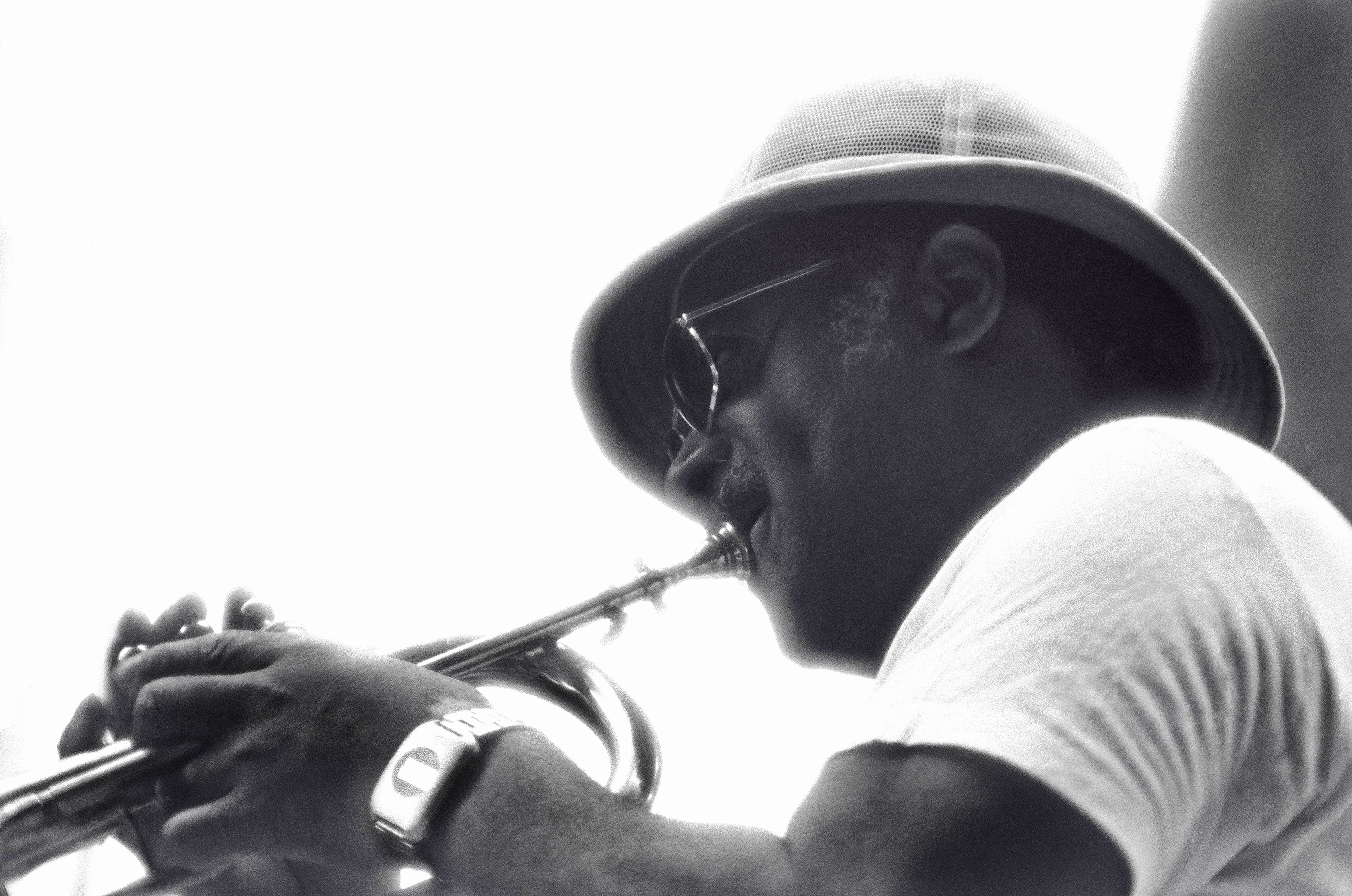 Clark "Mumbles" Terry NYC July 6, 1976